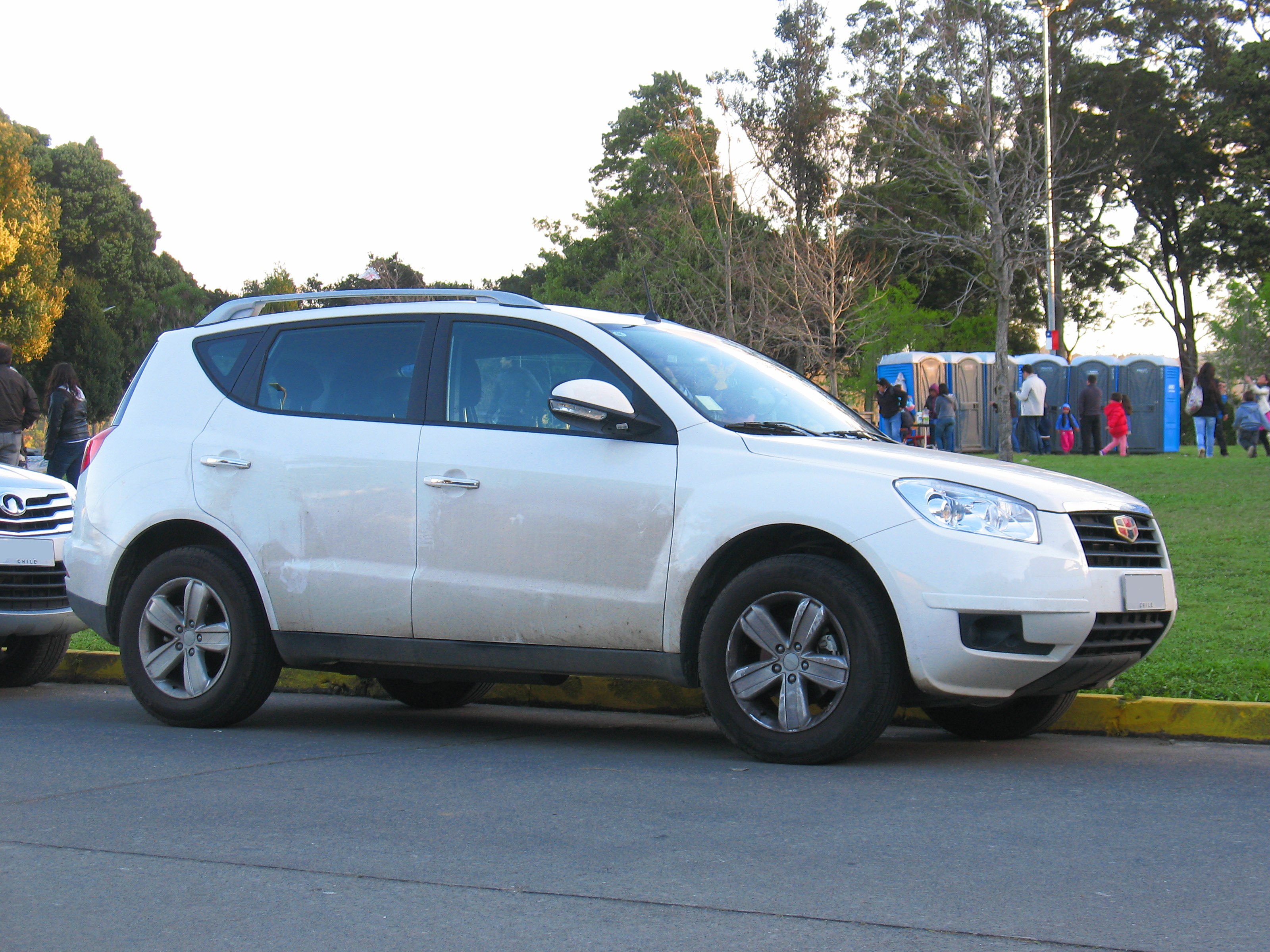 Emgrand EX7 2.0 GL 2013